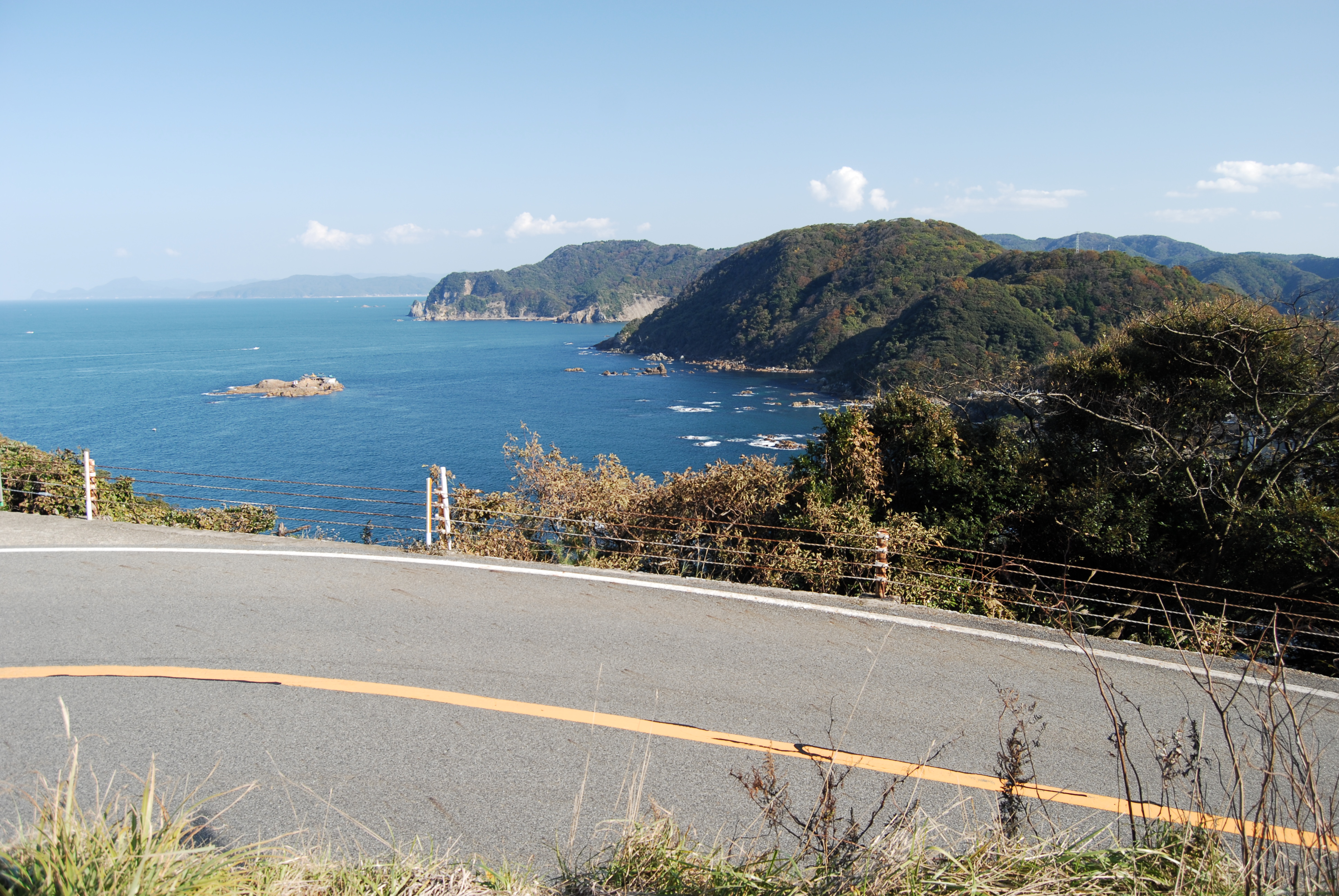 Coast road in Tyooka, Hyogo prefecture, Japan.